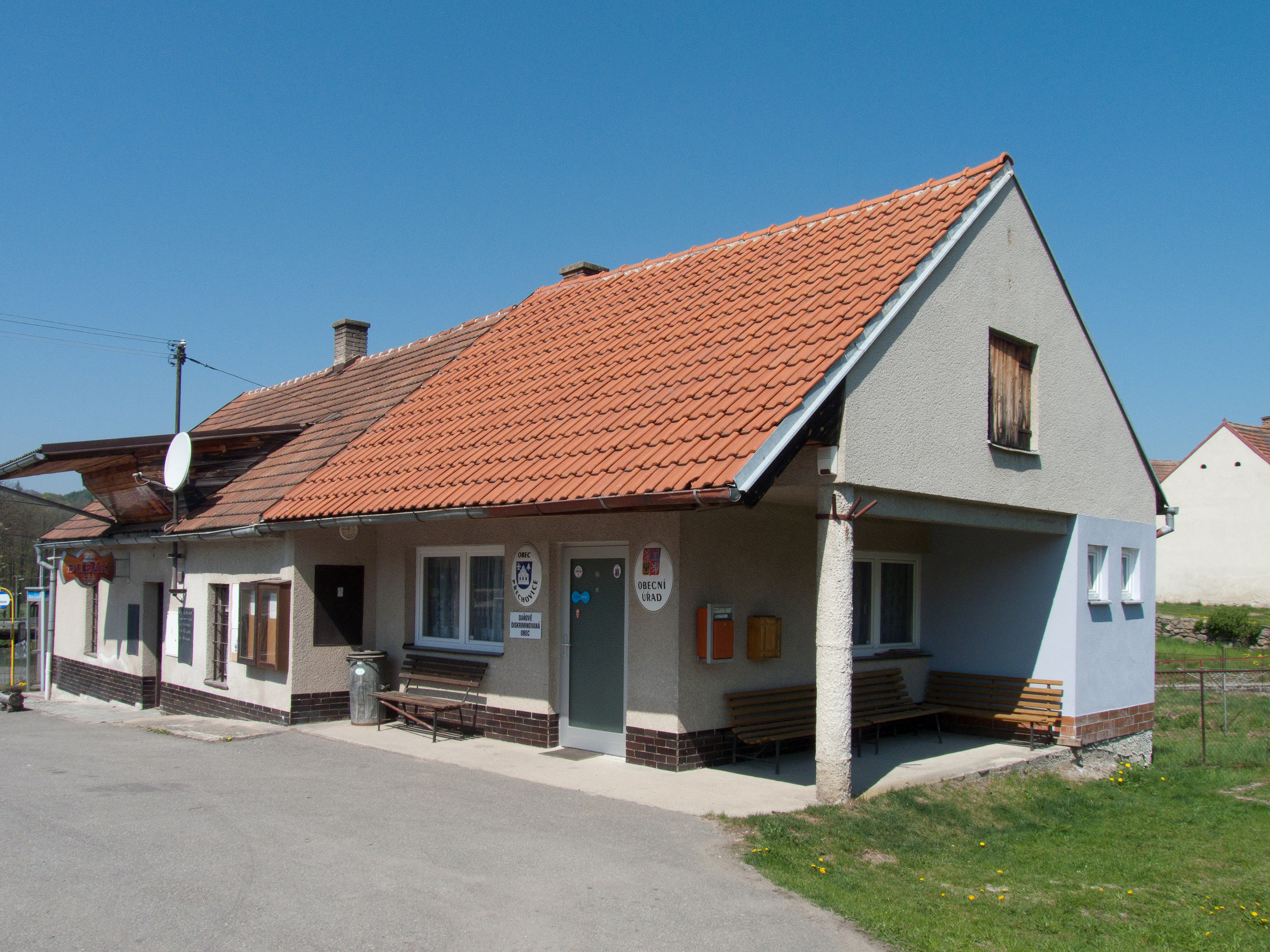 Municpal office building in the village of Přechovice, Strakonice District, Czech Republic.